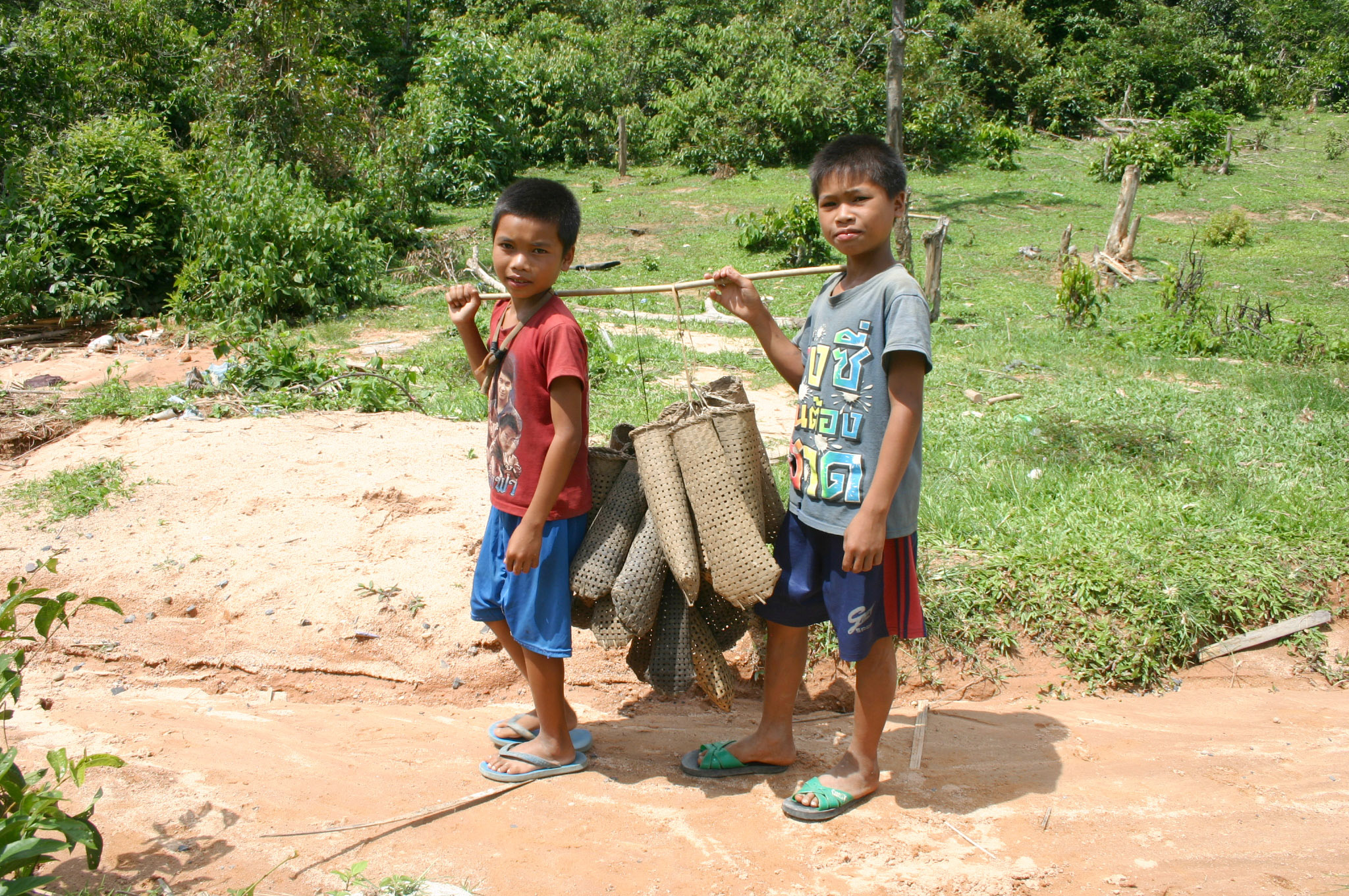 Two Ta-Oy boys in Salavan province of Laos carry fishtraps to place in a stream. The Ta-Oy are one of the 49 ethnic groups recognized by the Lao government; most live in the southern region of the country.